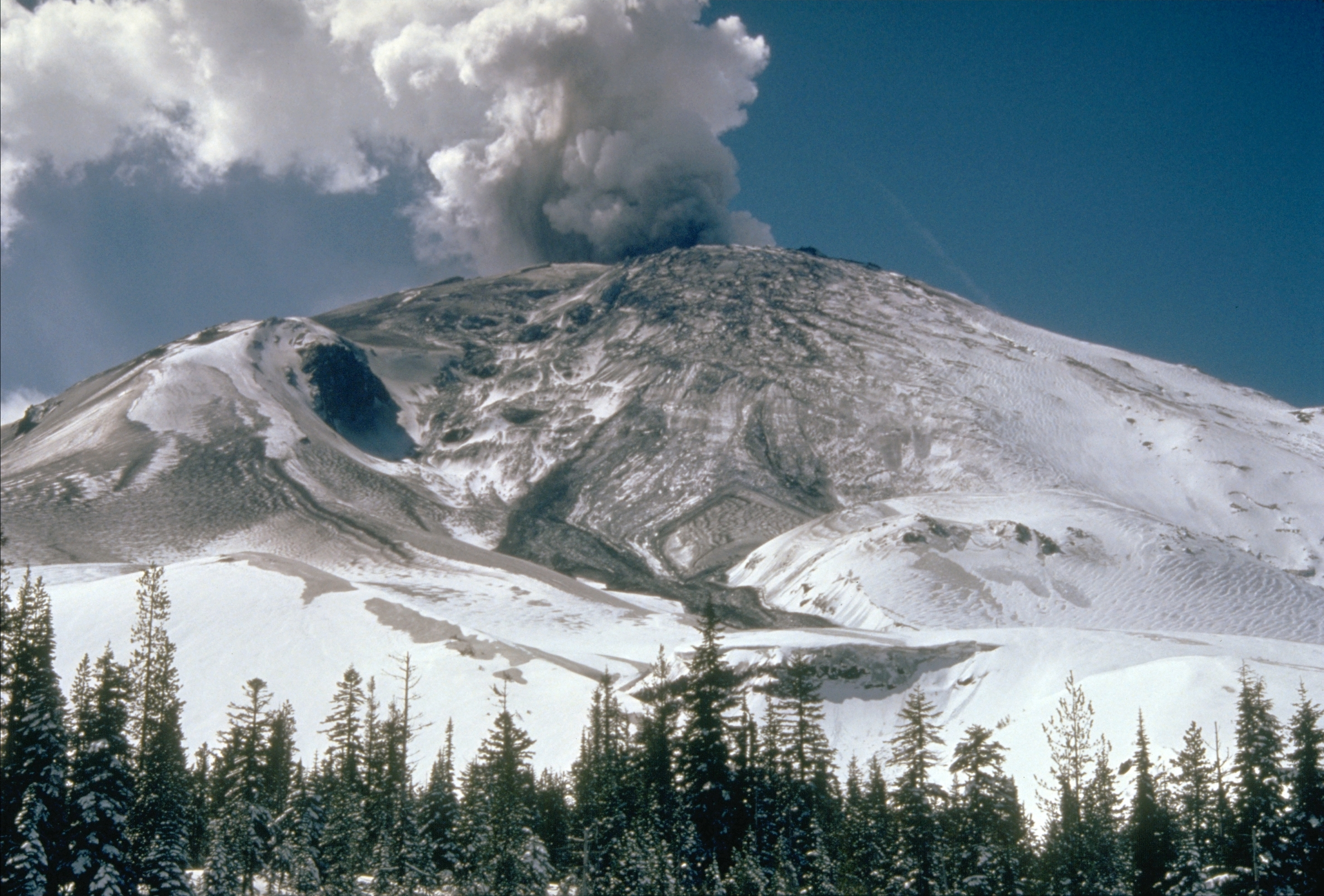 On March 20, 1980, after a quiet period of 123 years, earthquake activity once again began under Mount St. Helens volcano. Seven days later, on March 27, small phreatic (steam) explosions began. This view is from the northeast.